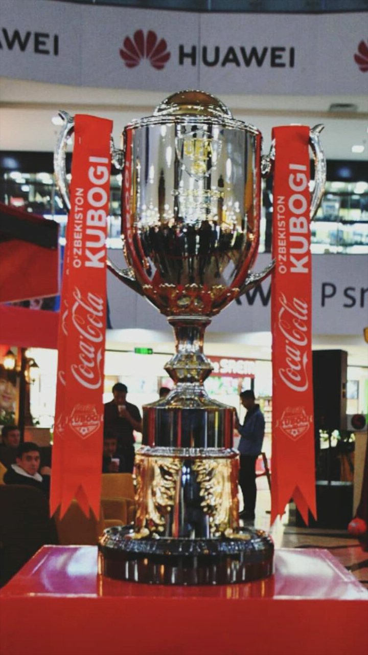 Uzbekistan Cup